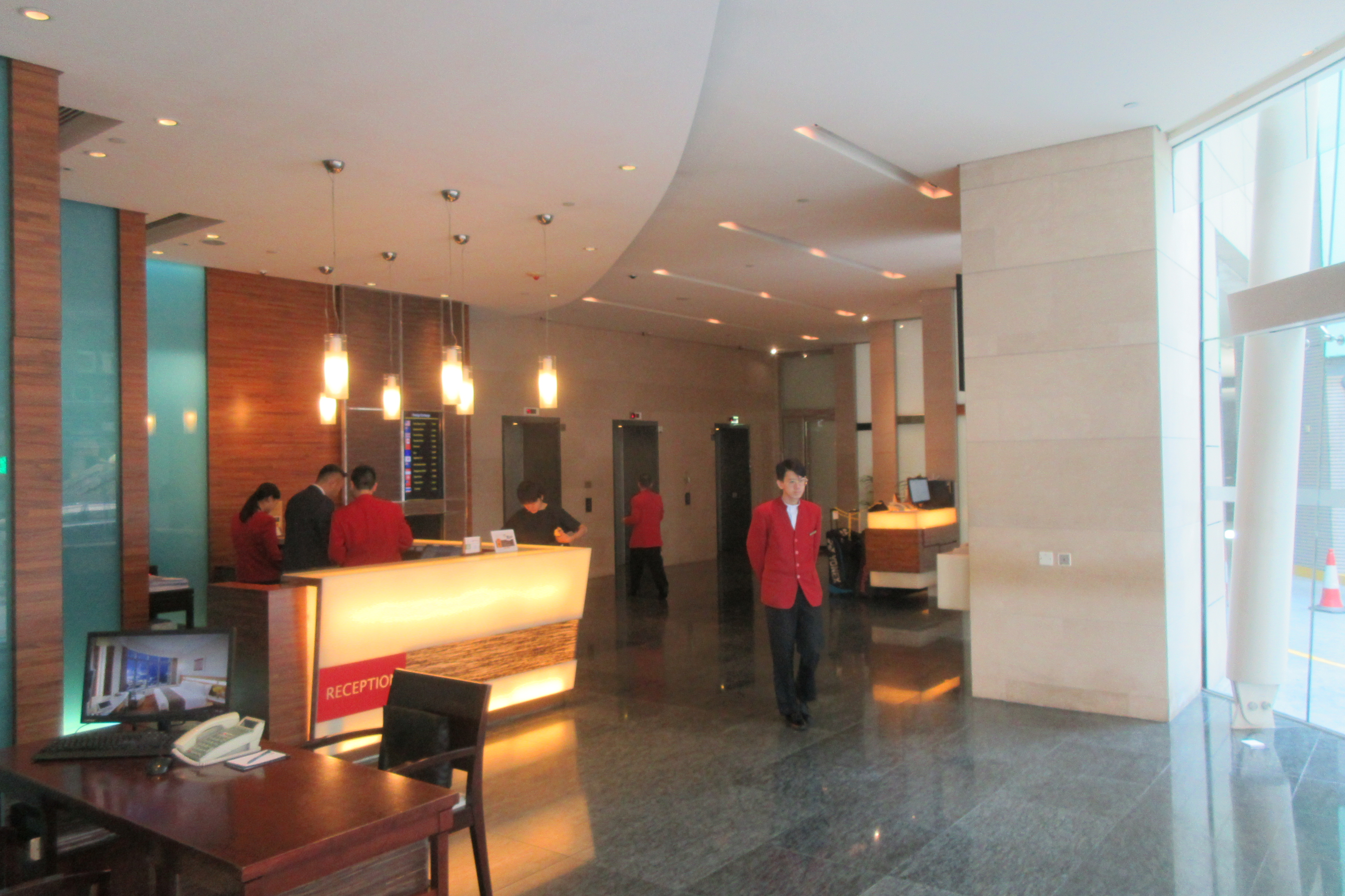 HK 天后 Tin Hau 留仙街 Lau Sin Street 如心銅鑼灣海景酒店 L'Hotel interior in October 2018